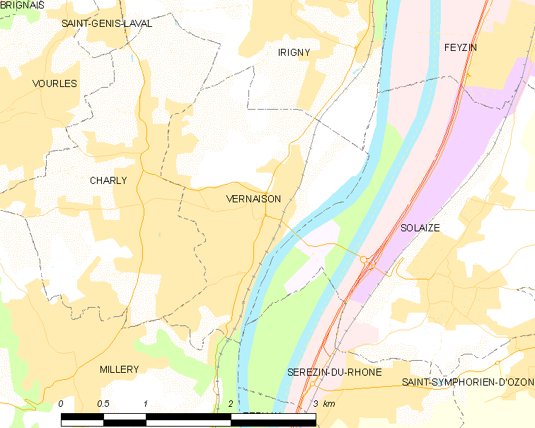 Map of French municipality